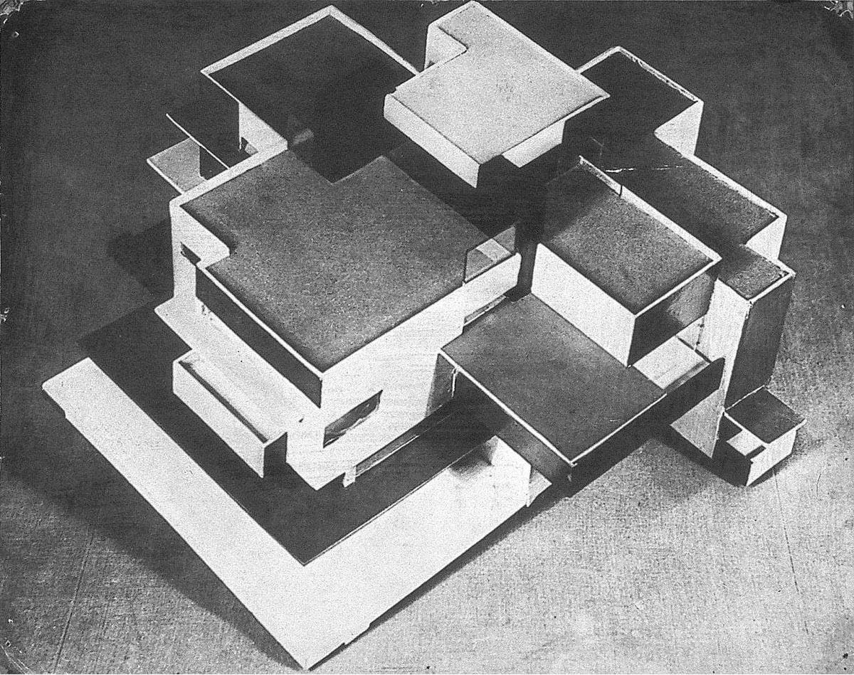 Theo van Doesburg. Model Maison Particulière. 1923. Photo. 39 × 49.5 cm. Rotterdam, The Netherlands Architecture Institute (inv.nr. AB5125).